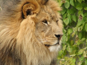 African Lion, image taken at the Louisville Zoo by me Ltshears